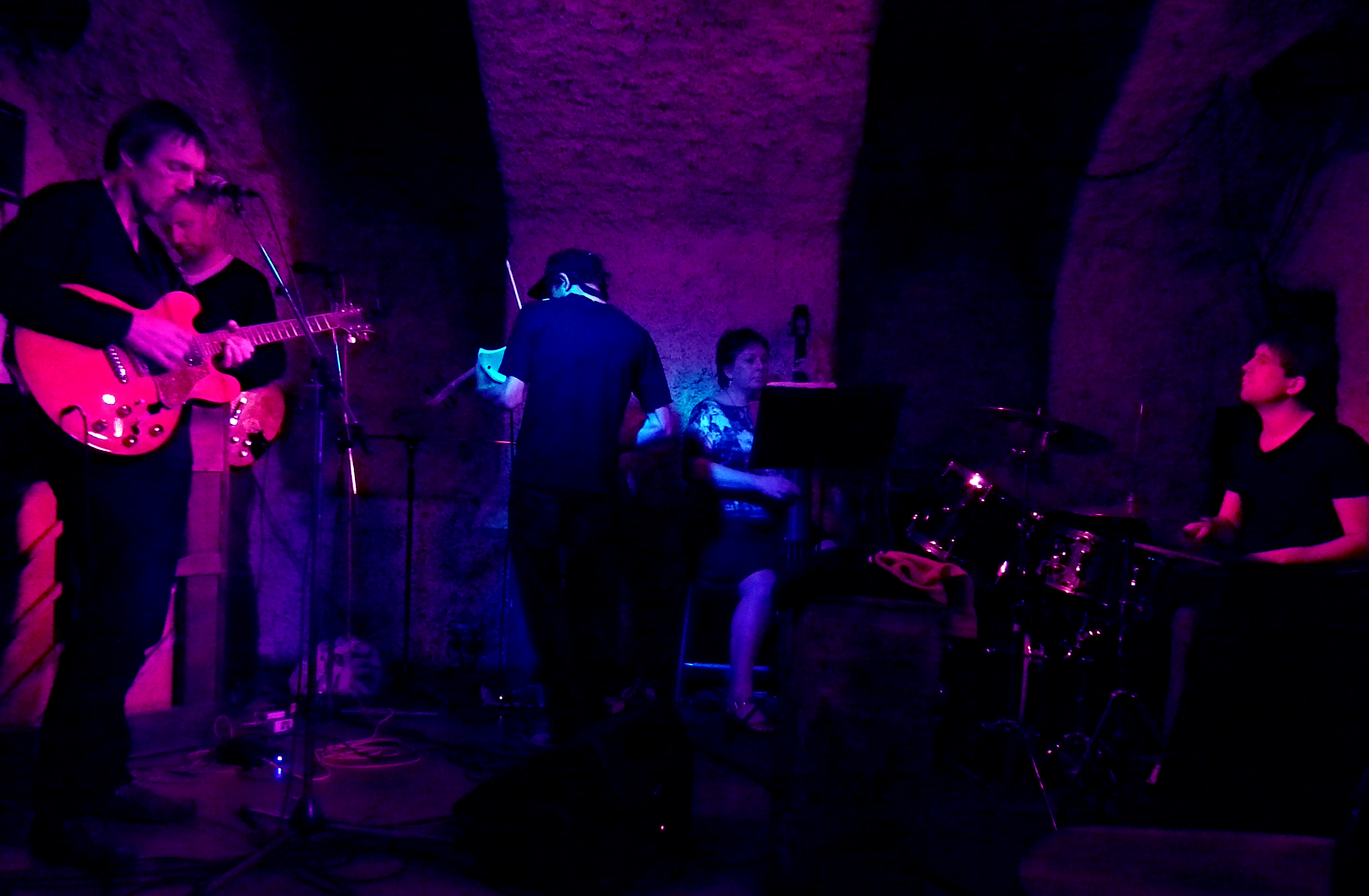 Bilders at Café Concerto, Vienna, Austria, 25 April 2013. From left: Bill Direen, Mark Williams, TThomthom Geingenschrey, Lousie Johns, David Wukitsevits.